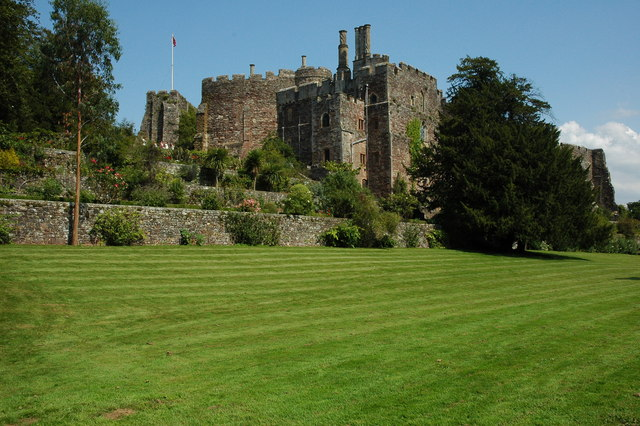 Berkeley Castle Berkeley Castle viewed from the south-west. In the early 14th century Edward II was held captive and murdered in the castle.